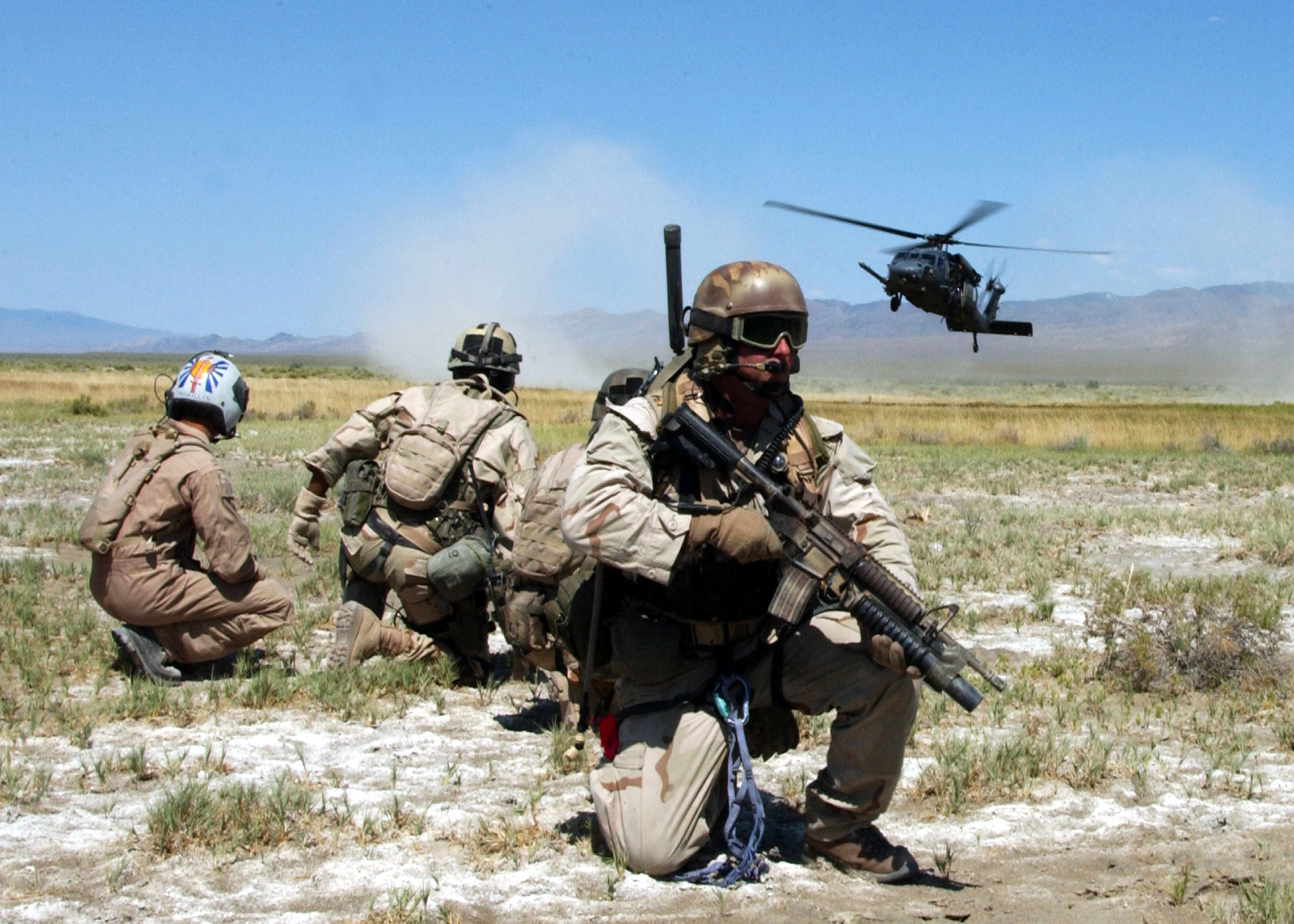 U.S. Air Force pararescuemen and a simulated “survivor” watch as an HH-60G Pave Hawk helicopter comes in for a landing here recently. The multiservice, multinational training exercise prepares combat search and rescue teams to extract downed personnel in a variety of environments and situations.